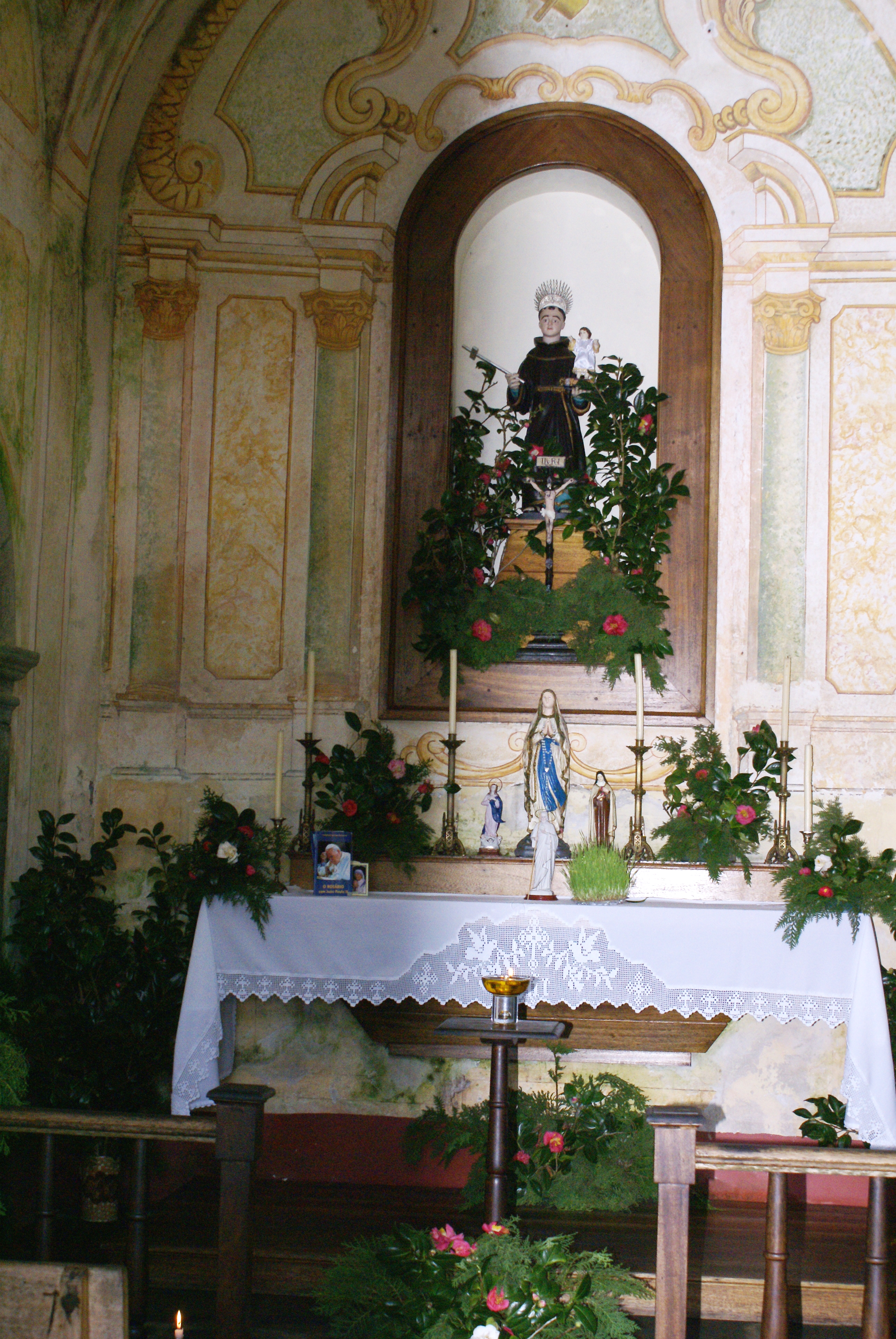 The main altar of the Chapel of Santo António da Grota, Monte Brasil, Angra do Heroísmo, Terceira (Azores), Portugal